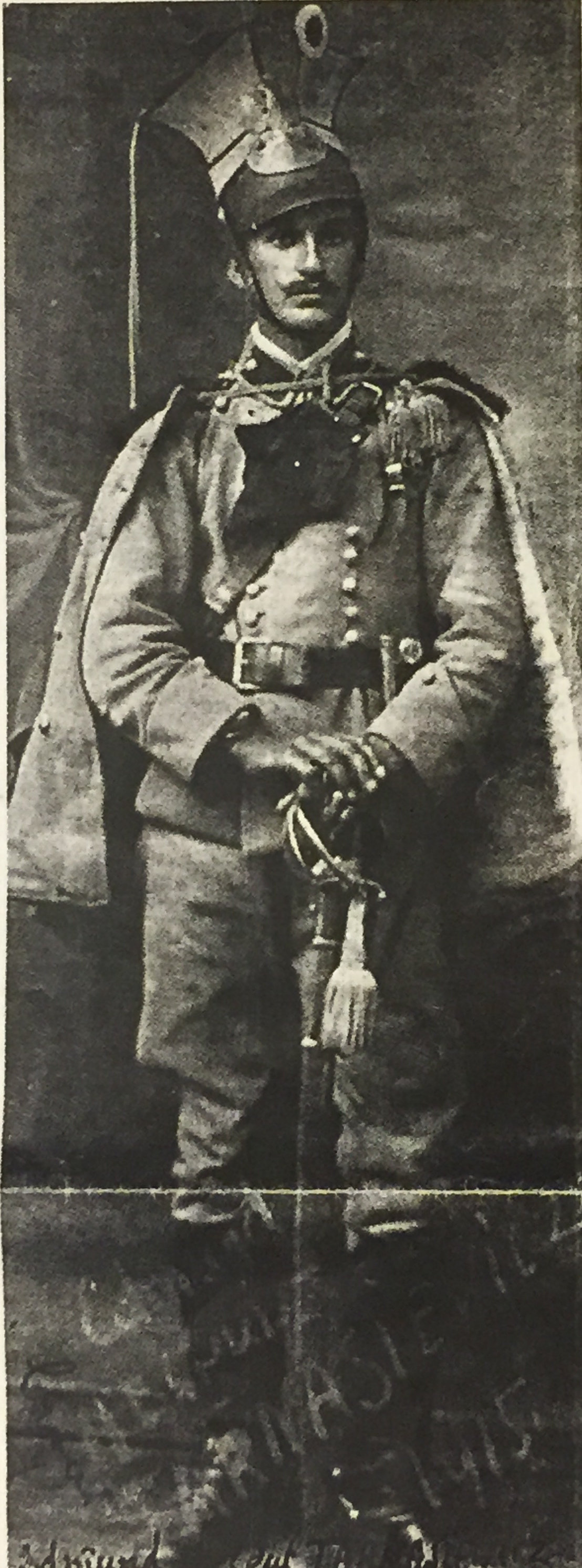 Commander of the Polish Army Cavalry